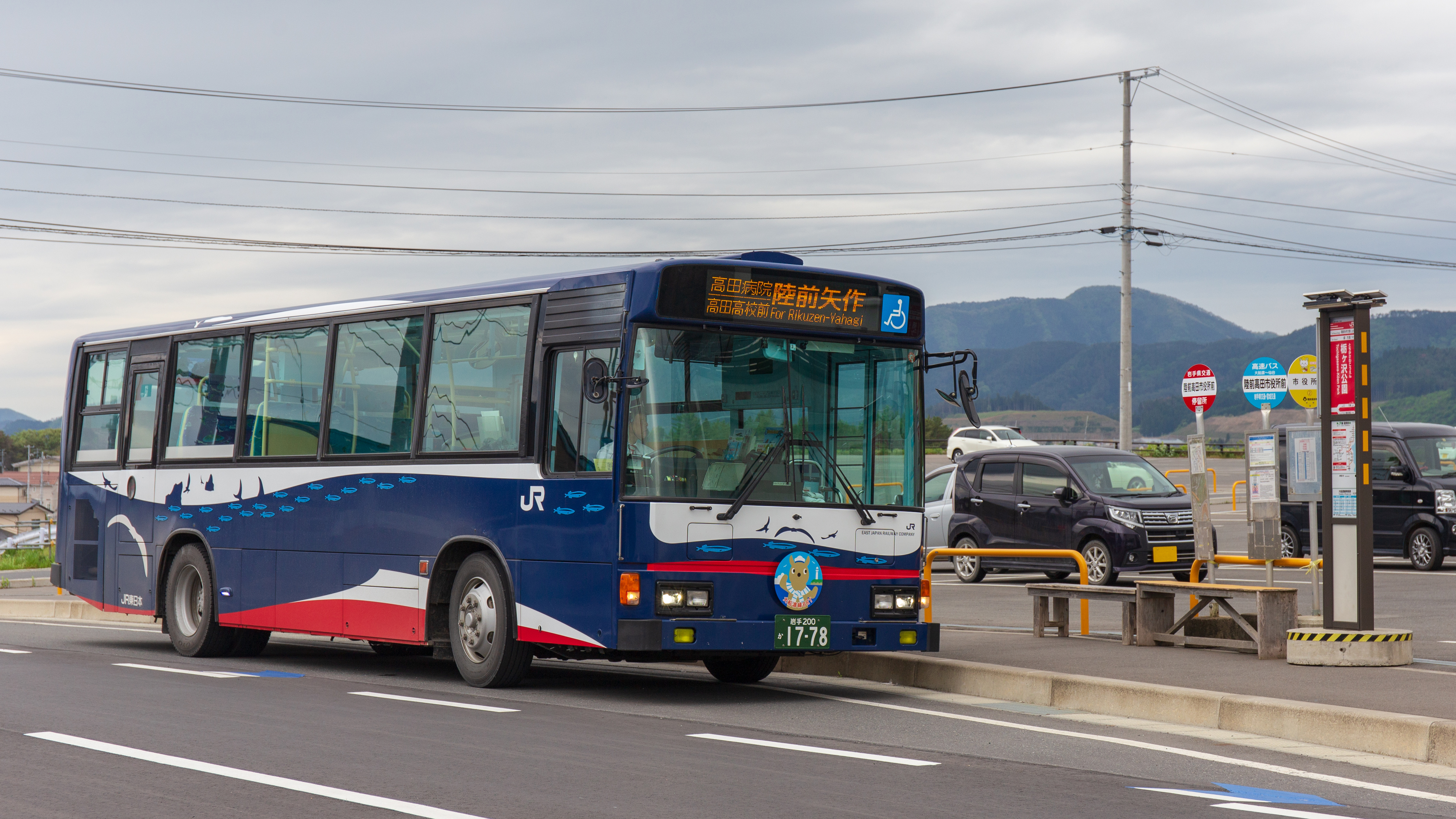 Tochigasawa-Koen Park Station on the JR East Ofunato Line BRT in Rikuzentakata City, Iwate Prefecture, Japan